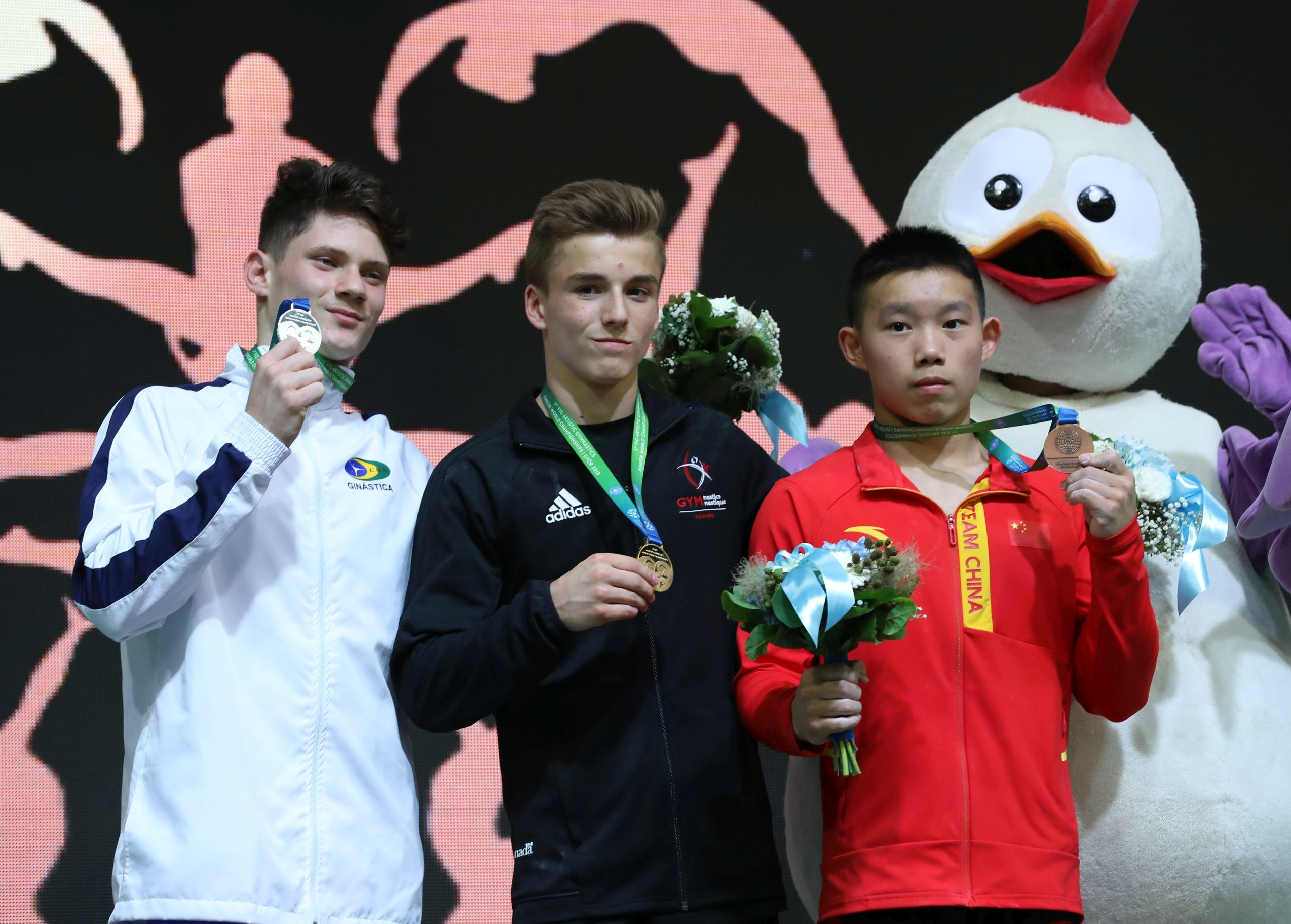 Still rings victory ceremony during the boys' apparatus finals at the 1st FIG Artistic Gymnastics Junior World Championships on 29 June 2019 in Győr, Hungary. Depicted: Diogo Soares. Félix Dolci. Haonan Yang.